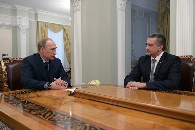 Vladimir Putin meeting with Sergei Aksyonov